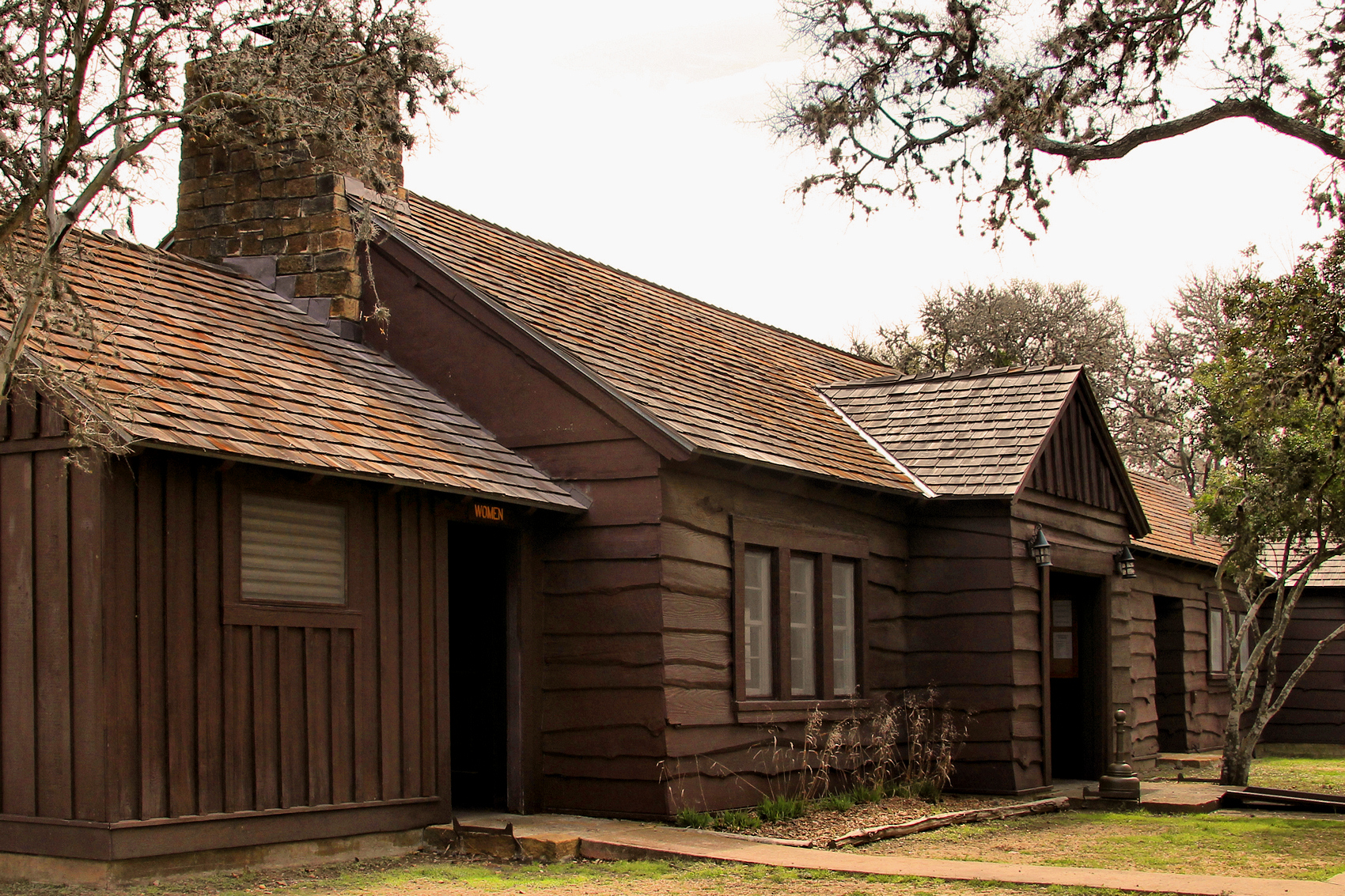 Lockhart State Park Combination Building in Caldwell County, Texas, United States. The building was designed by Olin Smith and constructed by Civilian Conservation Corps Company 3803.